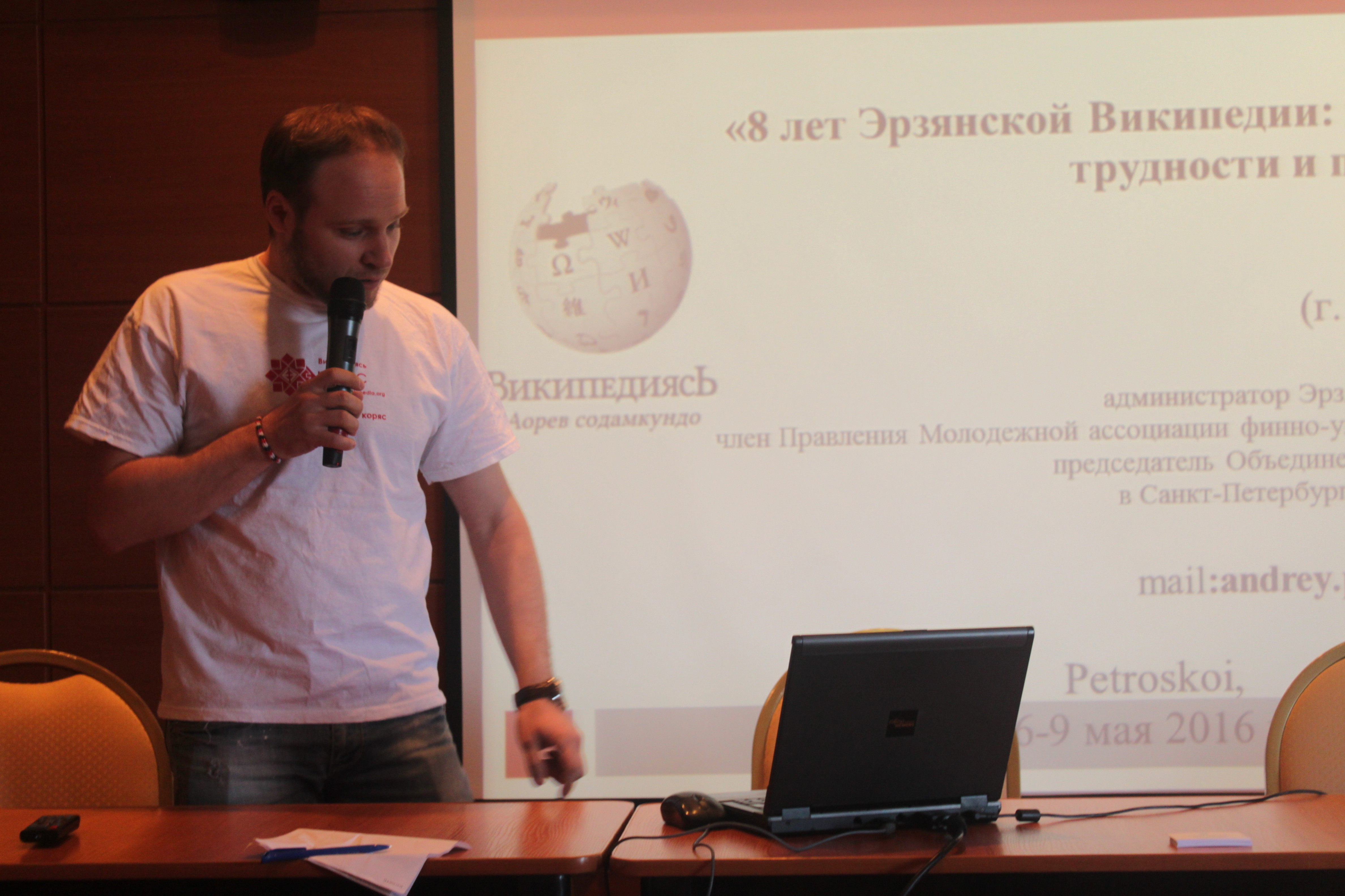 Finno-Ugric wikiseminar 2016 second day.